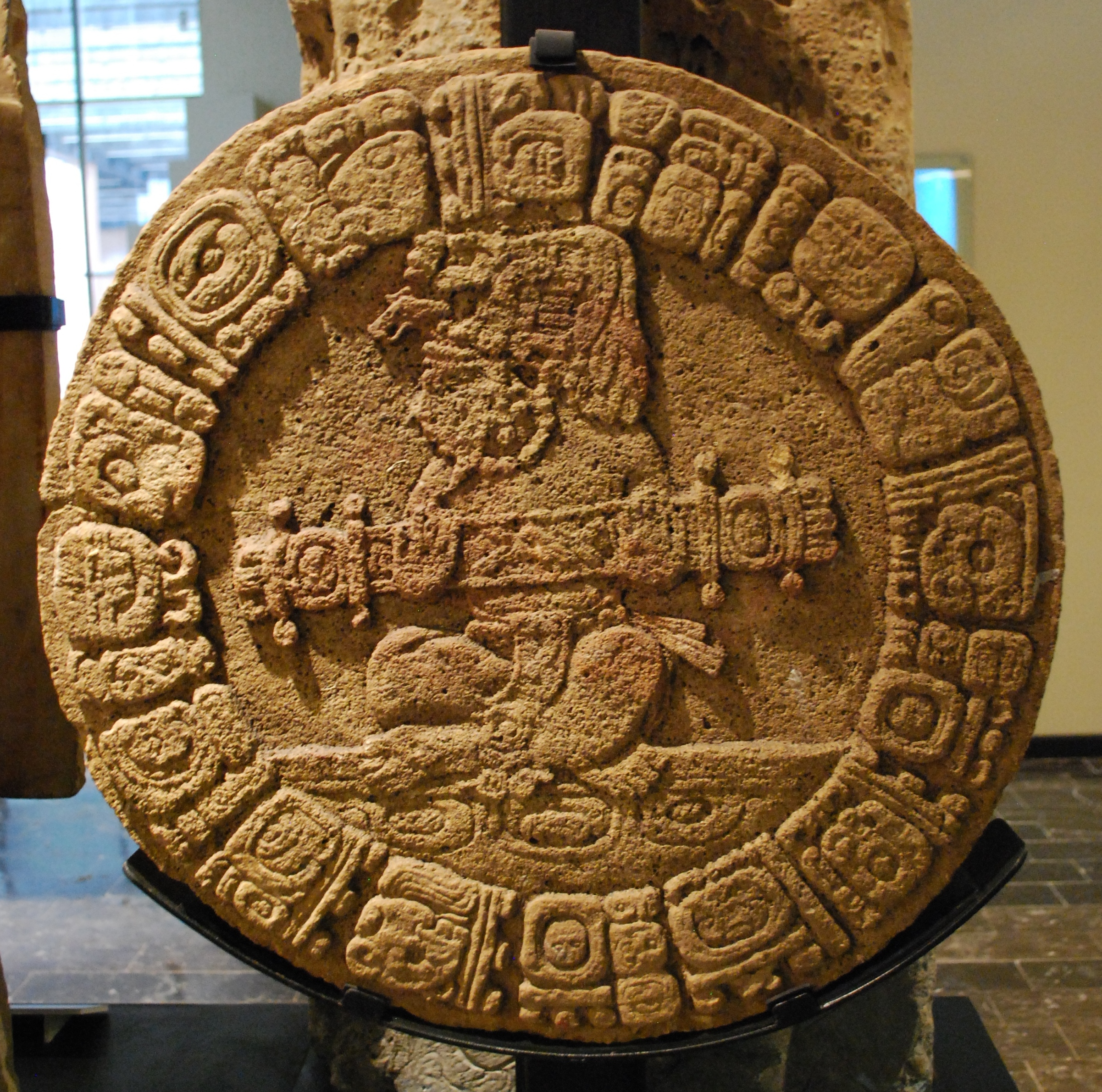 Stone disk from the Mesoamerican ballcourt at Toniná, Chiapas (600-900 CE) at the Regional Museum in Tuxtla Gutierrez, Chiapas, Mexico